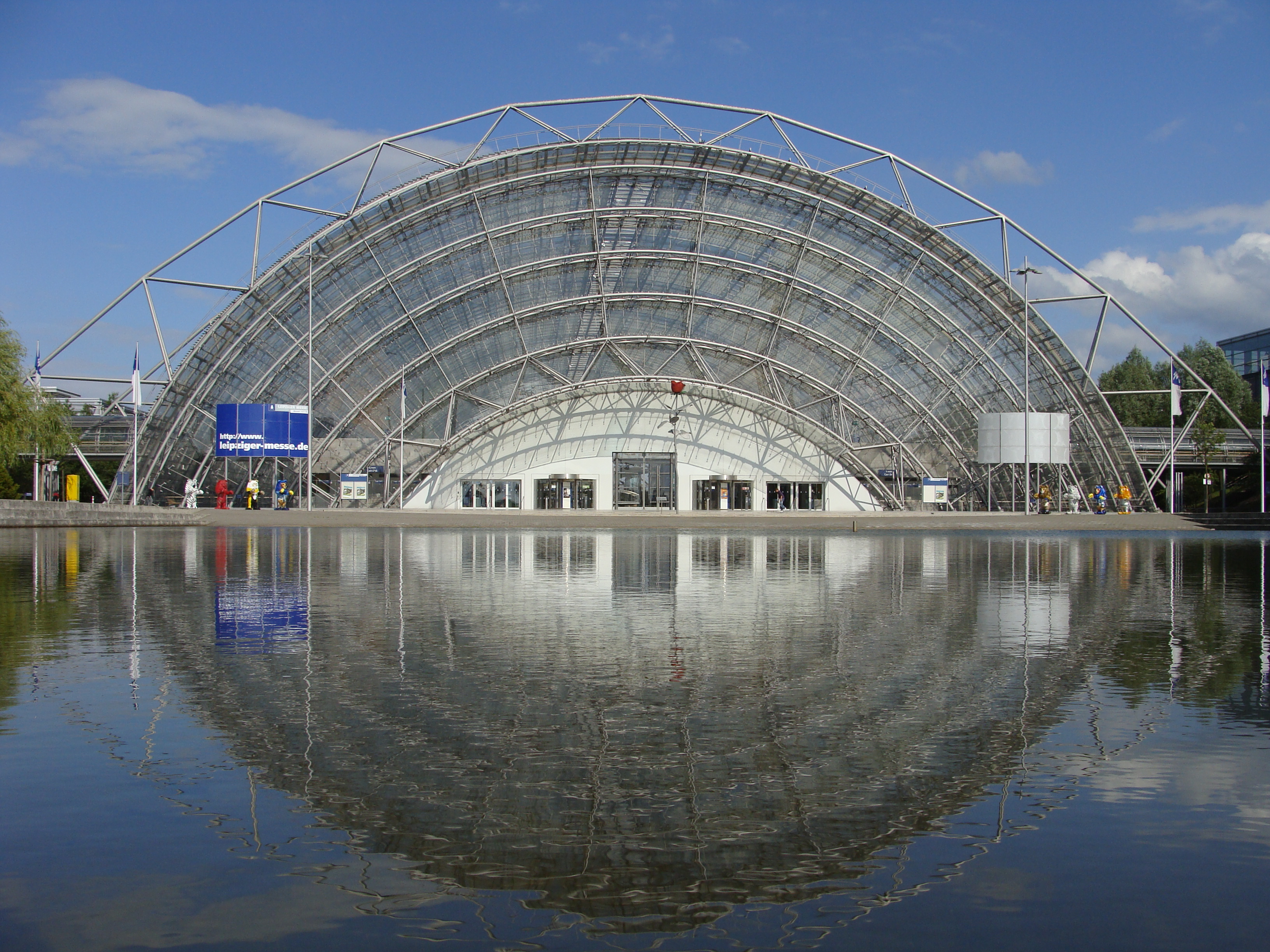 The glashall of the Leipzig Trade Fair.